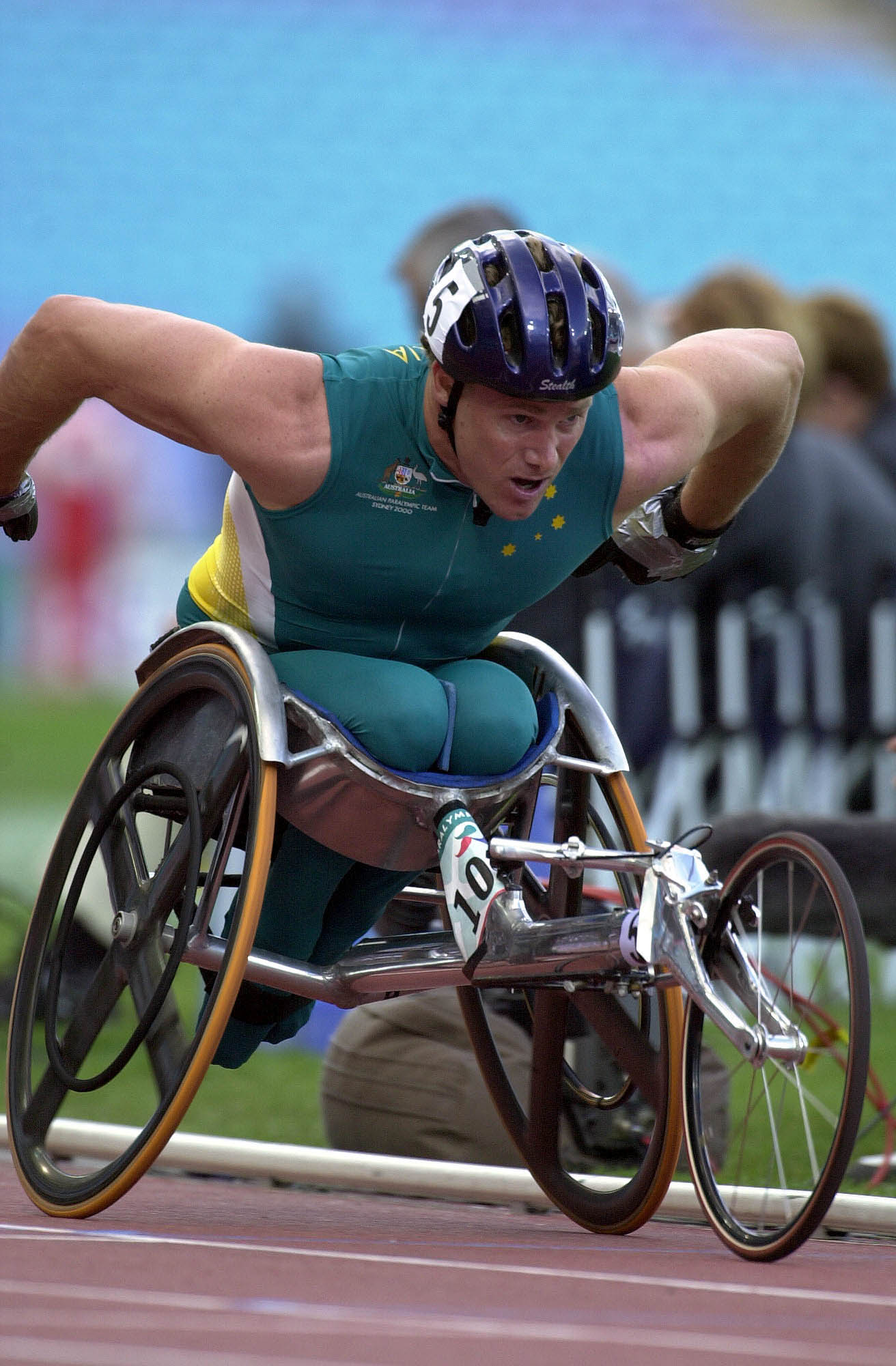 Action shot of Australian wheelchair racer John Maclean during the 10 km final event at the 2000 Sydney Paralympic Games, Day 03